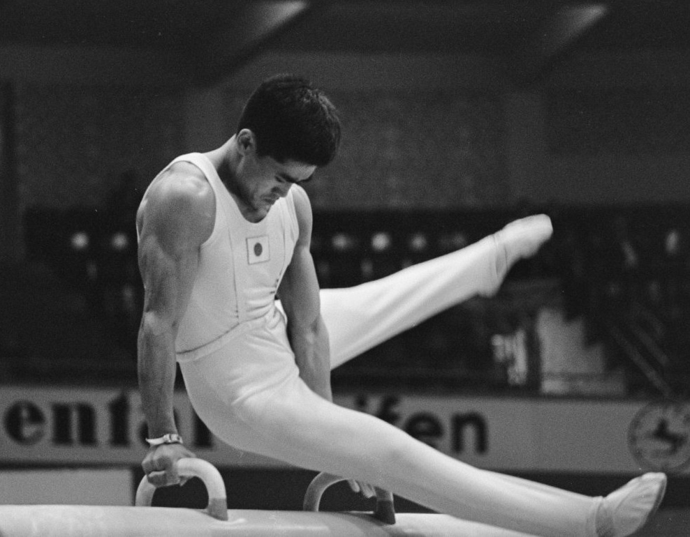 Yukio Endo at the 1966 World Championships